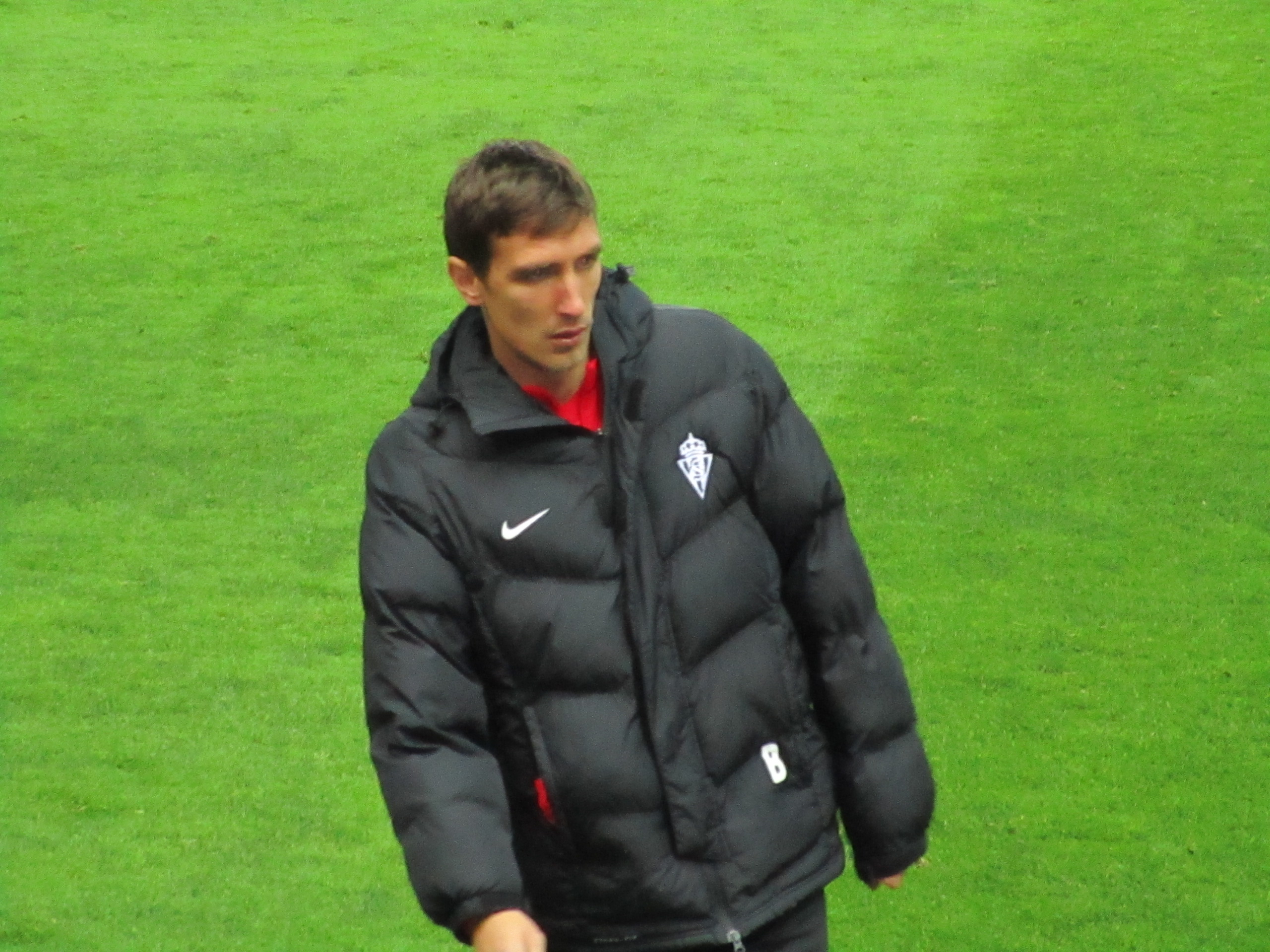 Stefan Šćepović, Serbian footballer.